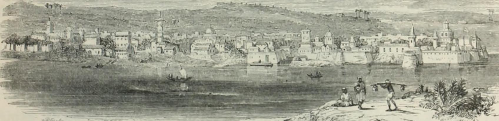 General view of Surat, India circa 1900 from Churchill's Voyages